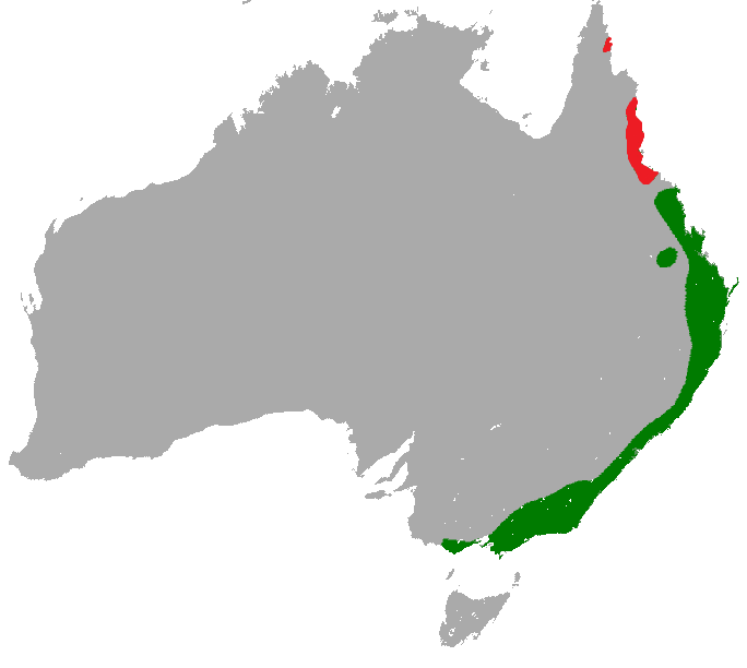 Perameles pallescens Distribution (red), Perameles nasuta Distribution (green)